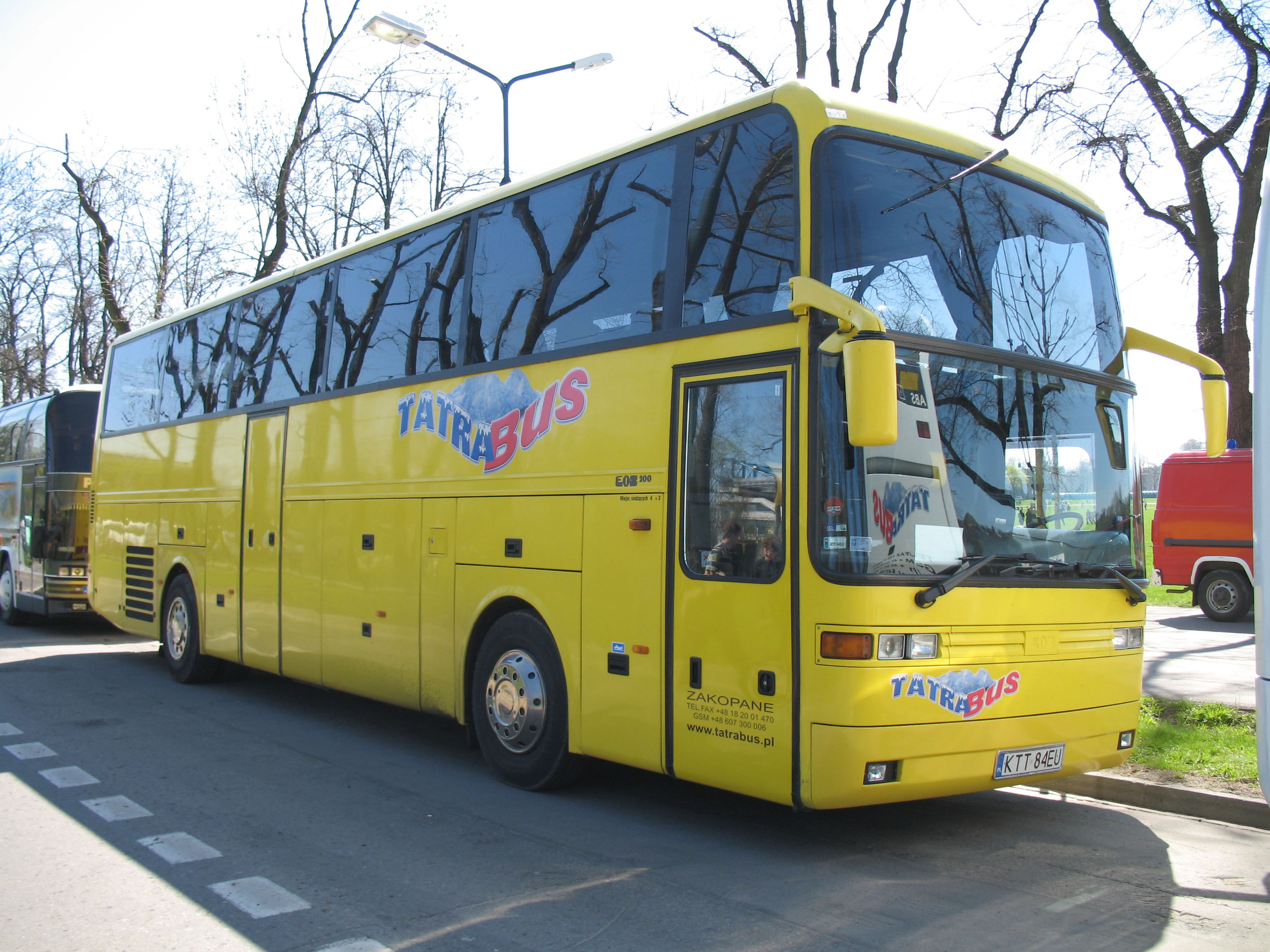 EOS 200 coach in Kraków, Poland. Built 1998, Tatra Bus Zakopane operator.